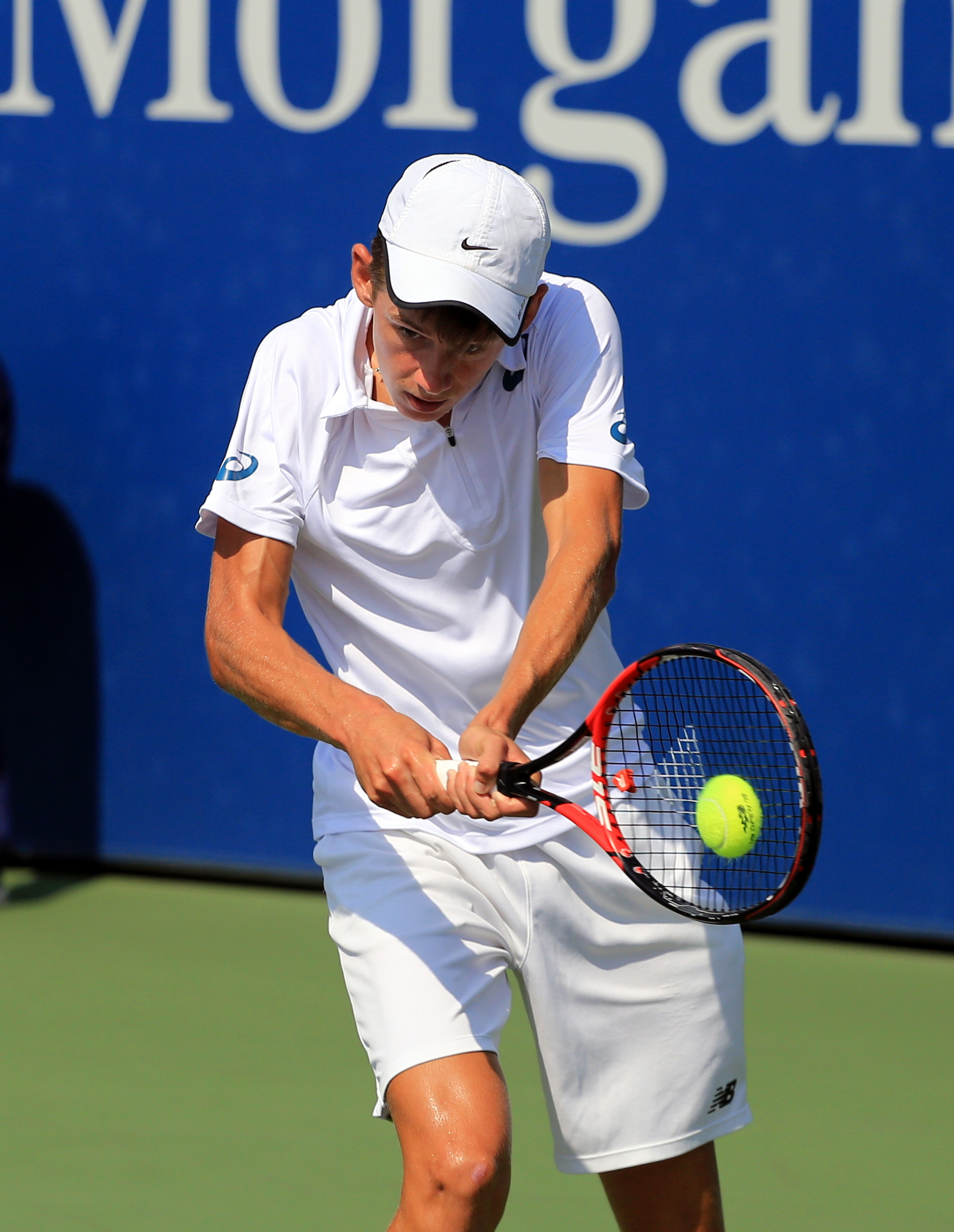 Alex de Minaur at the 2015 US Junior Open